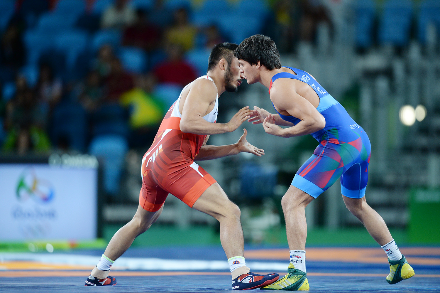 Wrestling at the 2016 Summer Olympics, Chunayev vs Ryu Han-su